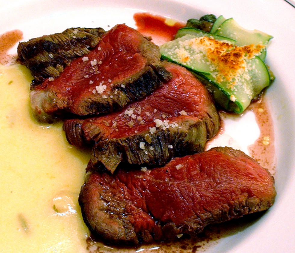 Chateaubriand with Bearnaise @ Urola, San Sebastian. 16 April 2007.